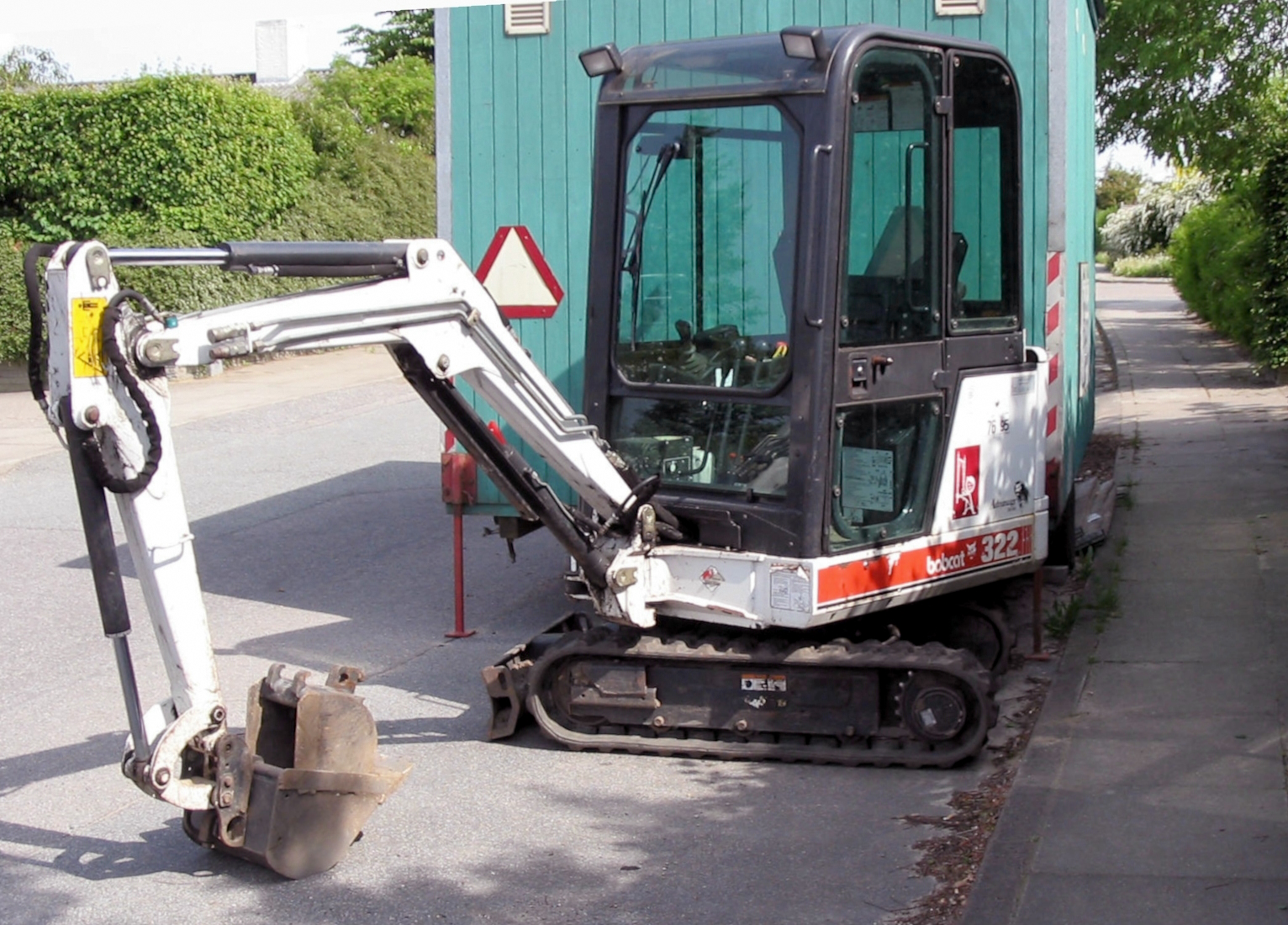 Bobcat 322 Excavator